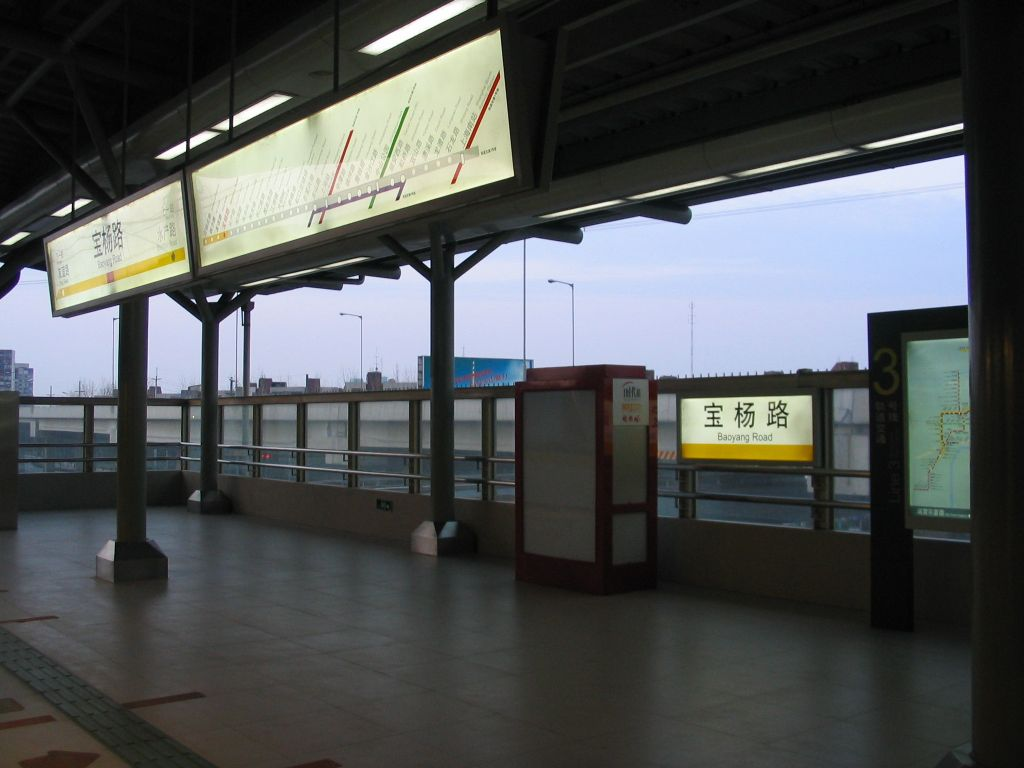 寶楊路站-3號線月台 Line 3 Platform of Baoyang Road Station